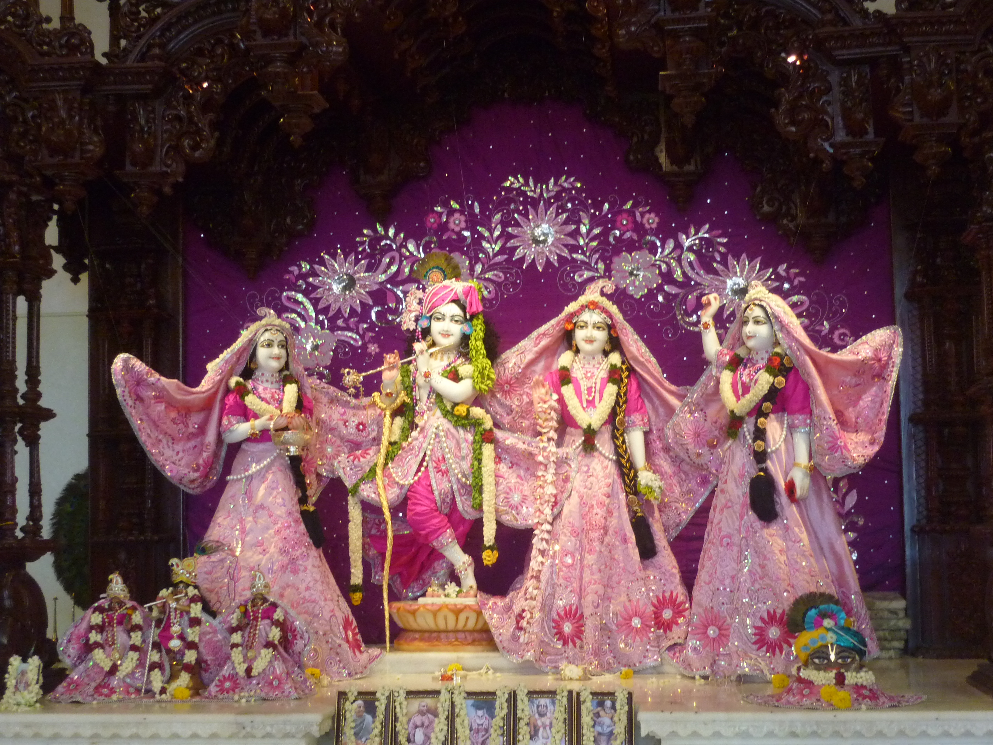 ISKCON Temple Chennai, Statues of Lord Krishna and Radharani, taken on 1-May-2012